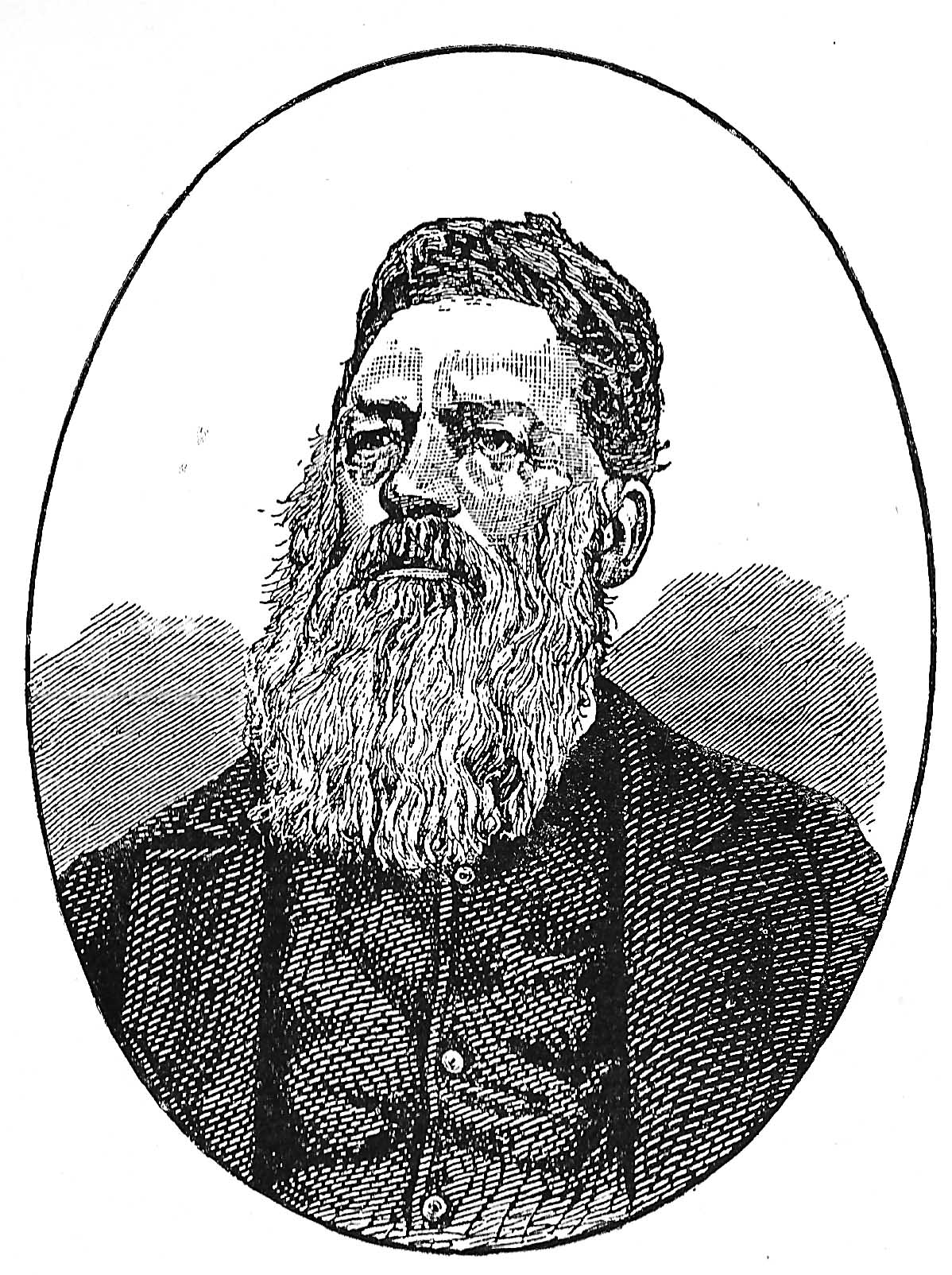 Portrait of Josias Philip Hoffman, first State President to the Orange Free State, in office 1854-1855.